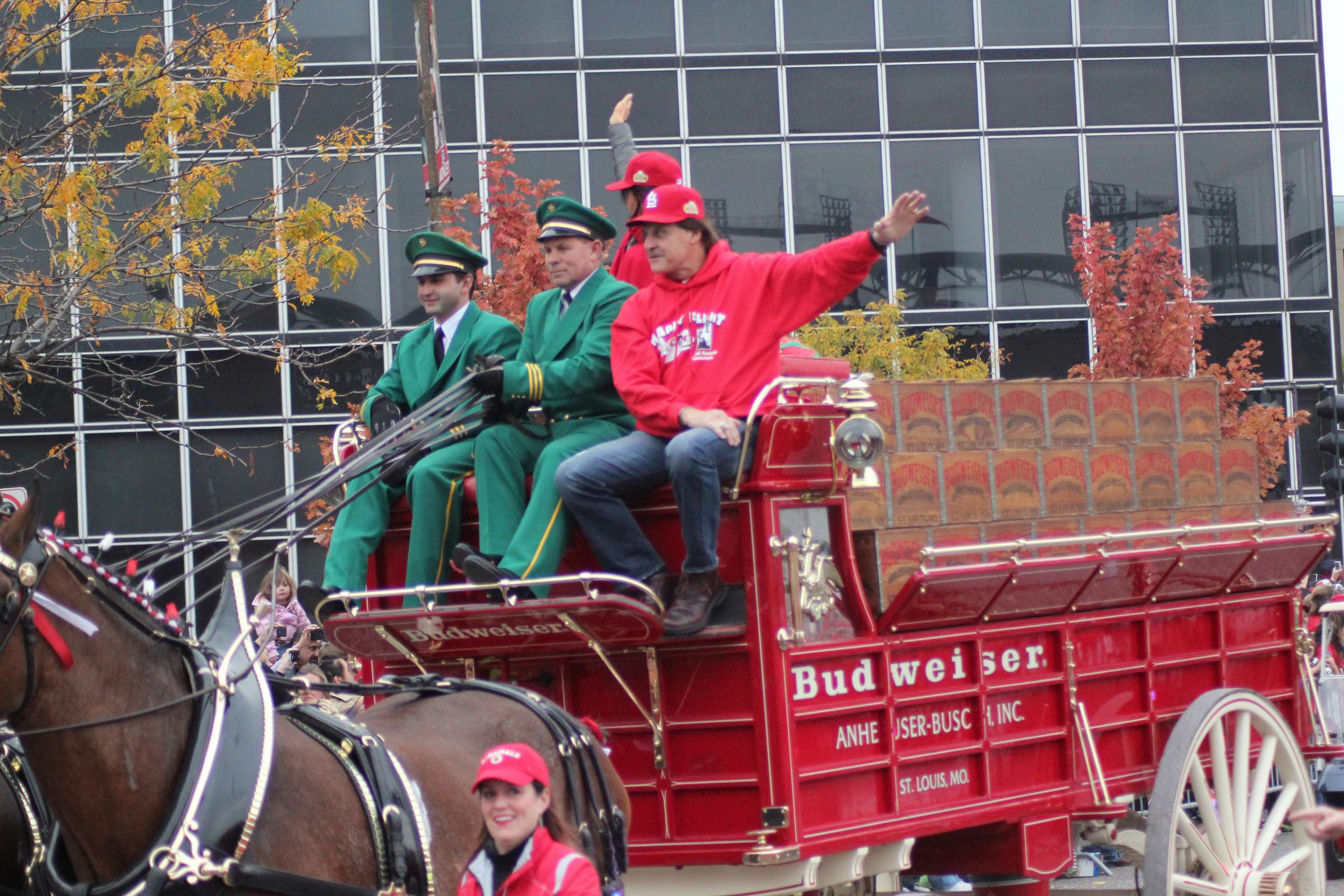 Tony La Russa during the 2011 World Series victory parade Saint Louis Oct 30, 2011.